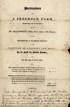 "Particulars of a freehold farm belonging to His Majesty and of the allotments (tithe free) made to His Majesty on the Inclosure of Exmoor Forest in the counties of Somerset and Devon to be sold by public tender on 23d day of July 1818, viz. the farm called Simon's Bath Farm situated within the said forest (which farm is enclosed & separated from the unenclosed land) containing by estimation 108 a(cres) 2 r(ods) 0 p(erches) & these several allotments of waste land situated in the center of the said forest contiguous & adjoining to each other and to the farm above mentioned & numbered on the map 32, 33, 34, 35, 36, 37, 38, 39, 40 and 41 and containing in the whole 10,262 a(cres) 1 r(od) 6 p(erches). In one lot". Published by HM Commissioners of Woods, Forests and Land Revenues. Somerset Archives.